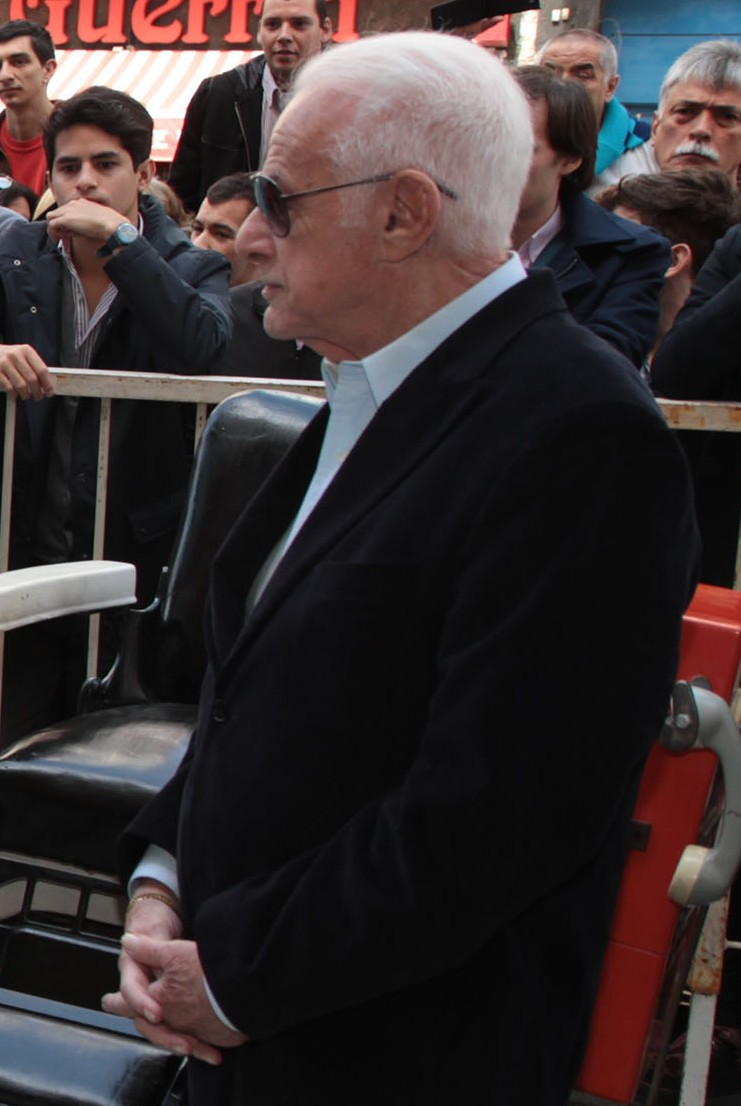 Argentine television producer Gerardo Sofovich (1937-2015) during Buenos Aires Mayor Mauricio Macri's unveiling of a memorial to the late Argentine comedian Jorge Porcel on the 1300 block of Corrientes Avenue. Photo:Matías Repetto -gv/GCBA.